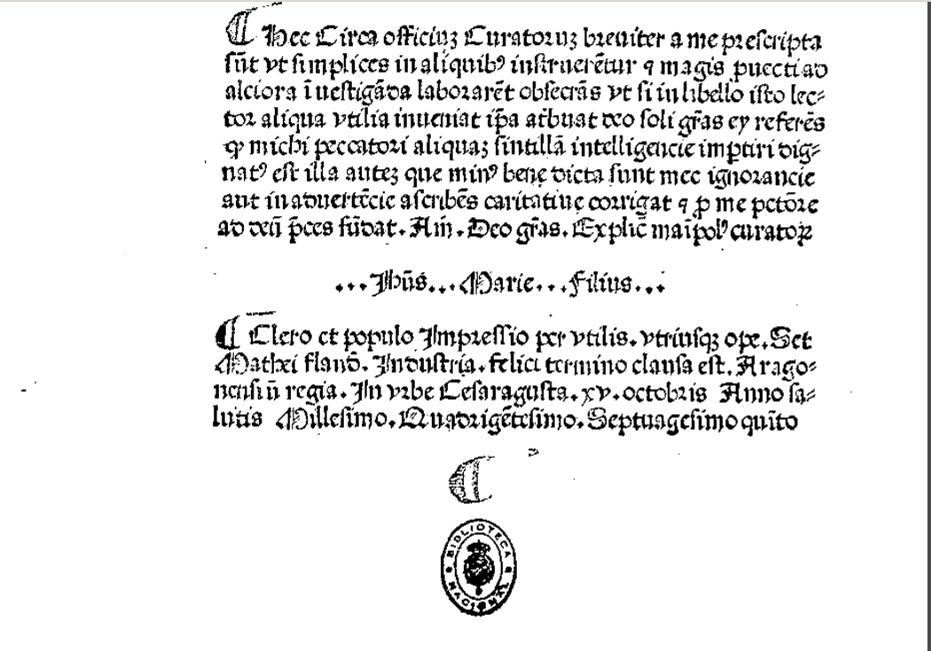 The first colophon in an Spanish book. Mateo Flandro print the Manipulus curatorum in Saragossa in October, the 15th in the year 1475